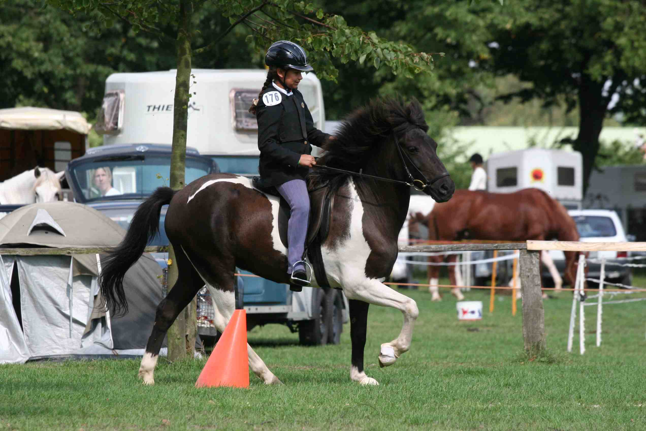 Icelandic Horse in Hestadagar